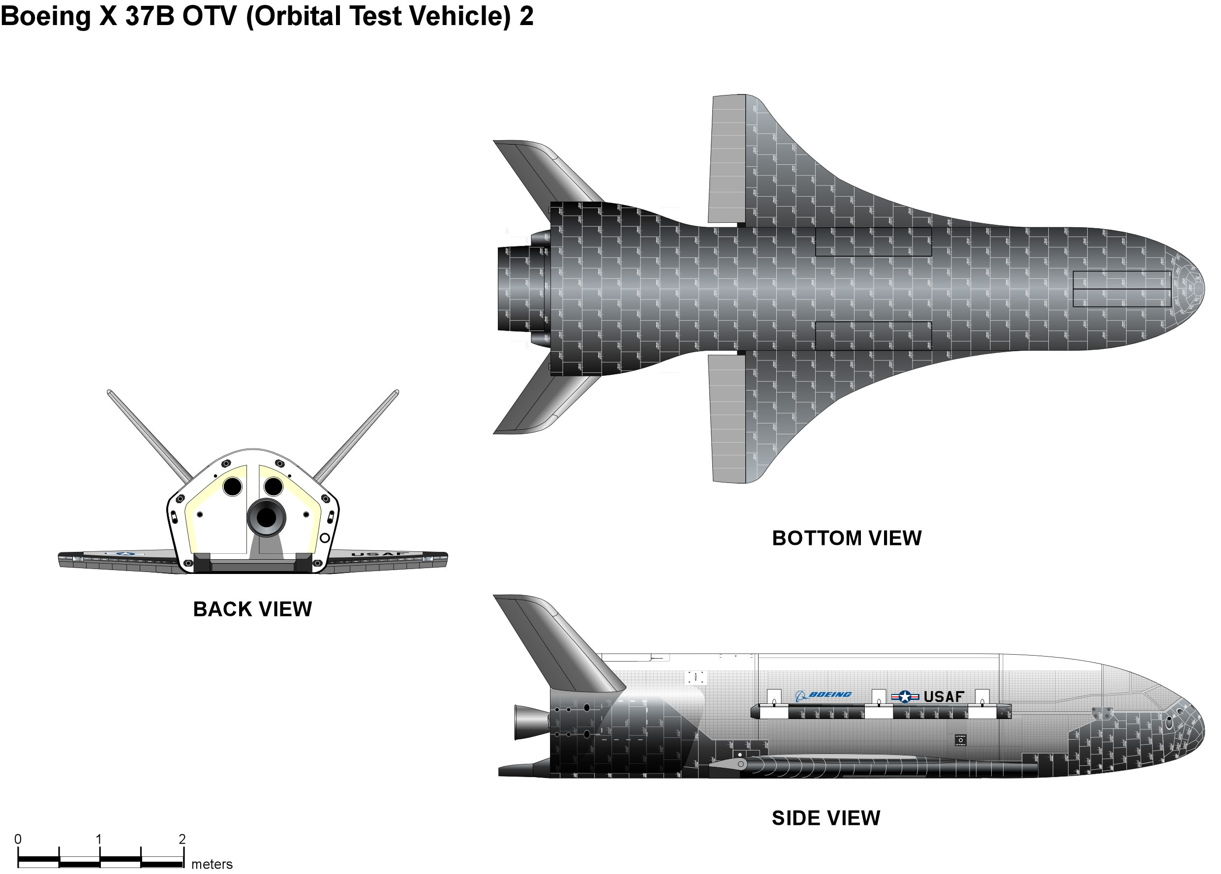 X-37B Three views